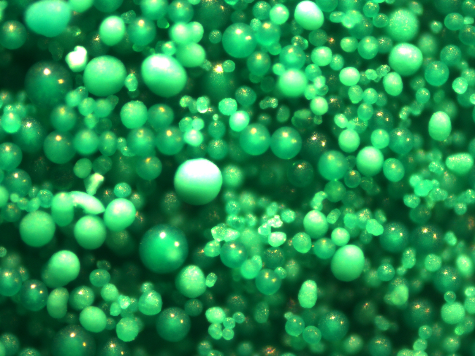 Dicopper chloride trihydroxide: alpha crystal form